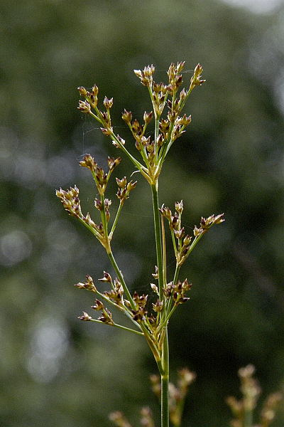 Juncus acutiflorus in Commanster, Belgian High Ardennes.